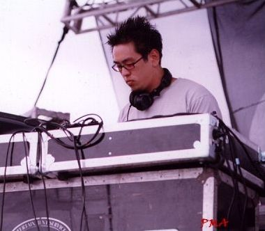 Took on Linkin Park's concert live in Rock am Ring Festival 2001.